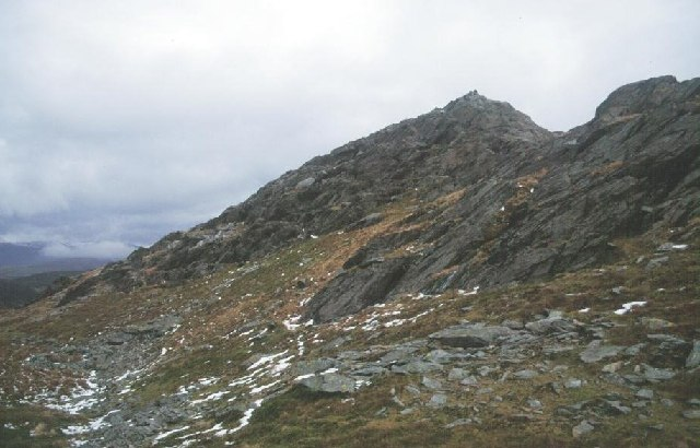 Ysgafell Wen. One of the sharp rocky peaks of Ysgafell Wen in the Moelwynion.